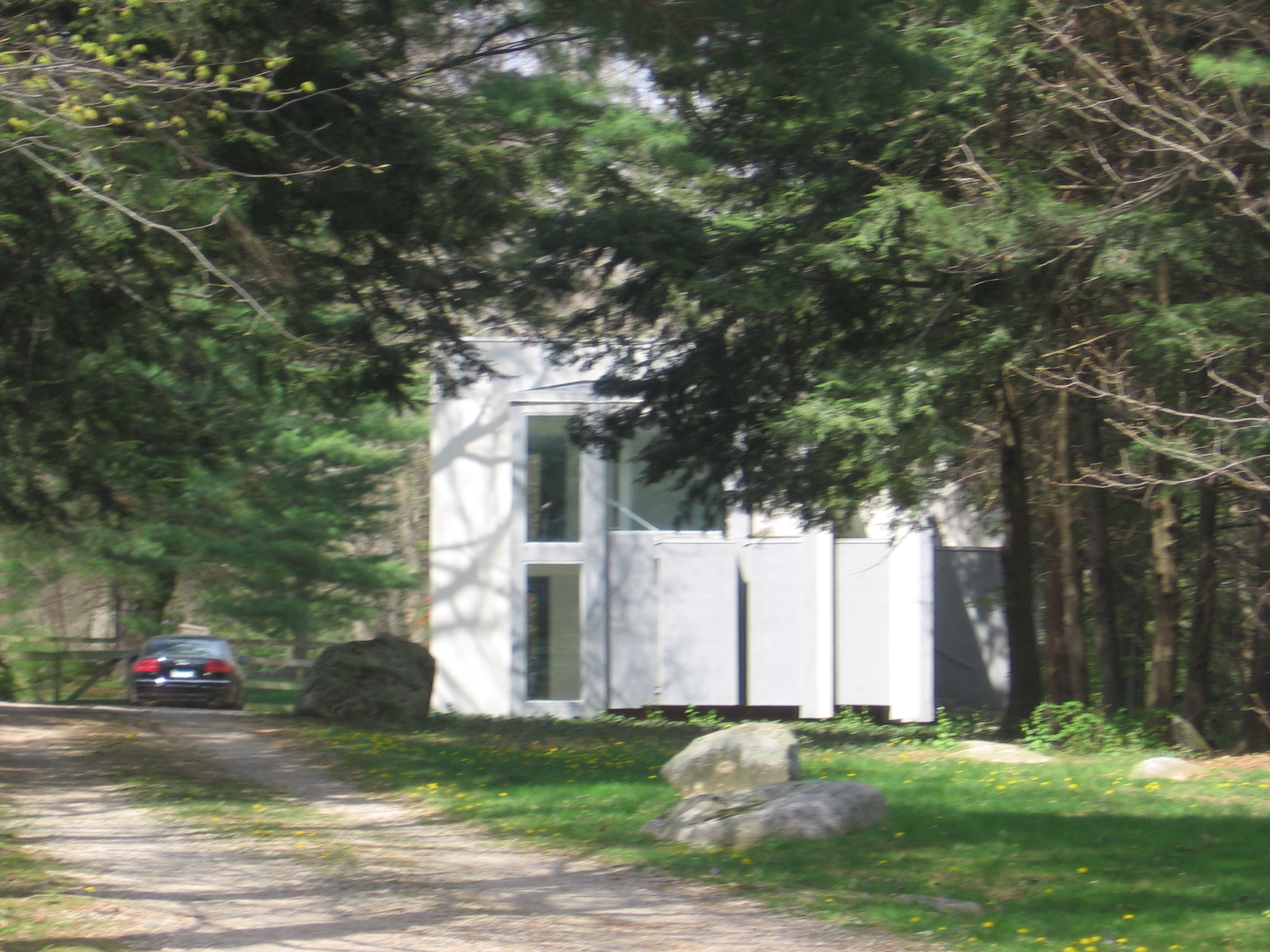 House VI in Cornwall, Connecticut.